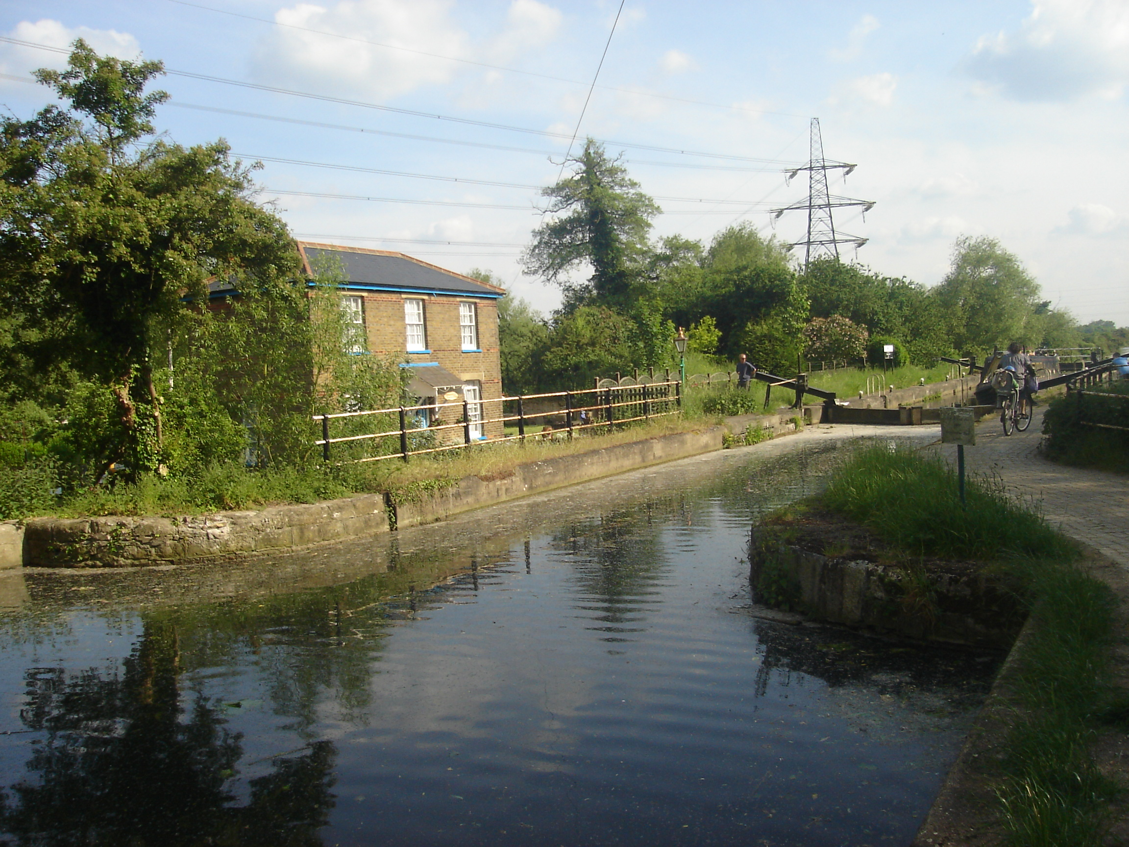 Picture of Aqueduct Lock